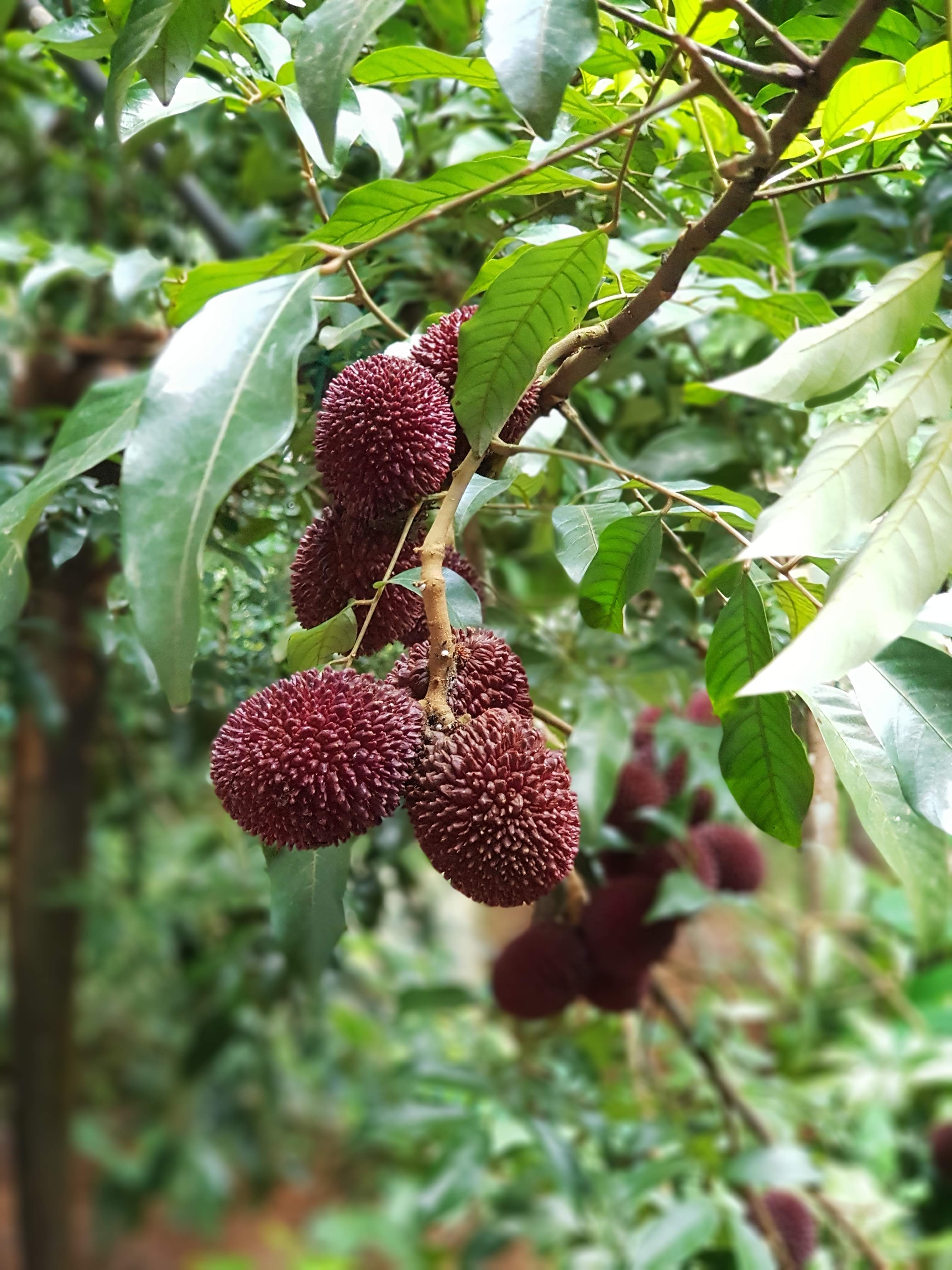 Pulasan tree having fruits in it.